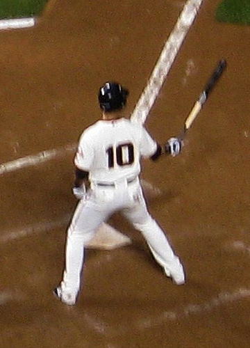 Travis Ishikawa at bat.